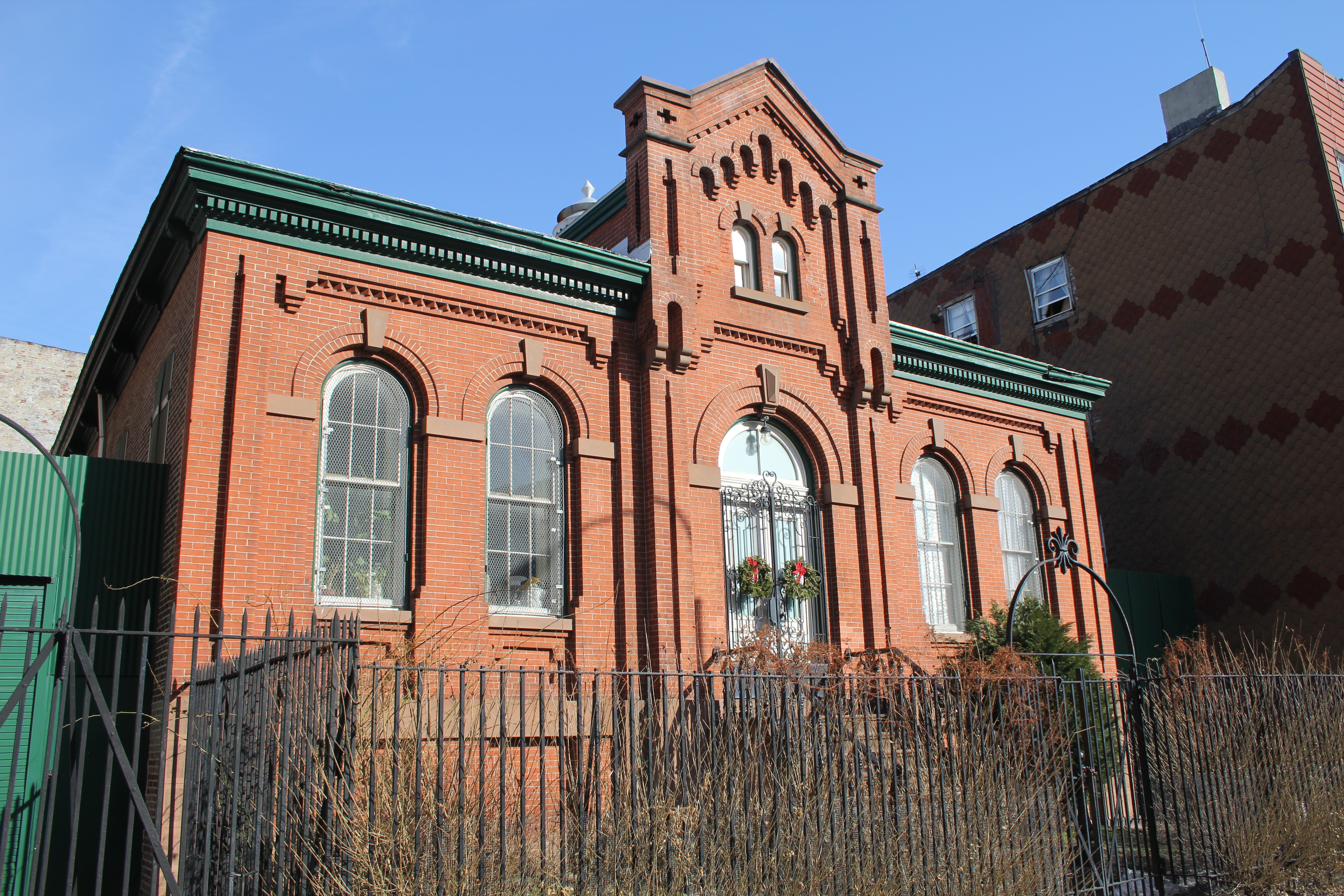 Colored School #3, later P.S. 69, now a private residence. 270 Union Ave., Brooklyn, NY in Williamsburg section. Designated NYC landmark.